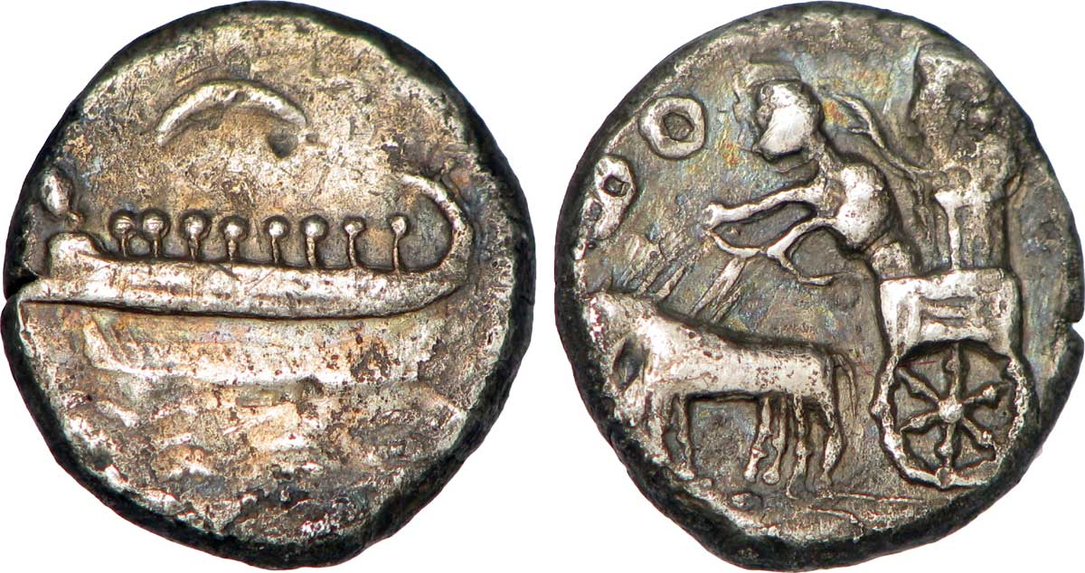 Quart de shekel de la cité de Sidon en Phénicie Sidon était avec Tyr l'un des principaux ports de la cote phénicienne. C'était le principal port d'exportation de la pourpre et aussi un port militaire d'où la présence de la galère au droit. Au revers, le char triomphal pourrait représenter une procession avec le Roi Achéménide